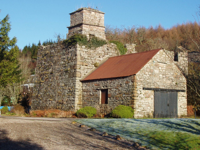 Ruins of the Furnace Ironworks, near to Furnace, Argyll And Bute, Great Britain. Before the arrival of the iron works, the village, Furnace was known as Inverleacainn. Set up by the Duddon Iron Foundry from Cumbria on the platform of local reserves of timber for charcoal, the furnace ceased production in 1813